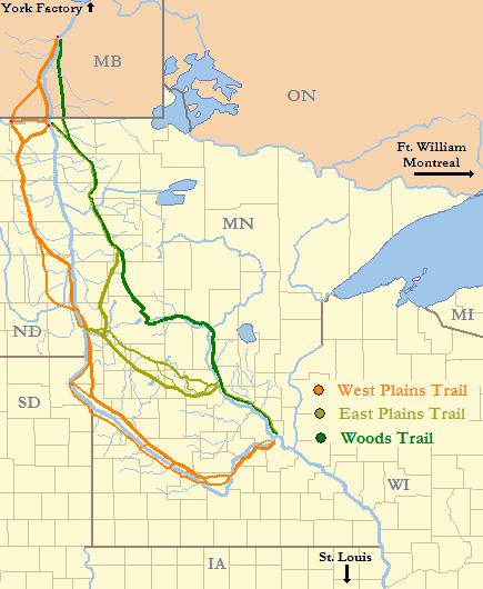 Locator Map of Red River Trails, Canada and United States; cropped from this version to remove title, and slightly edited.